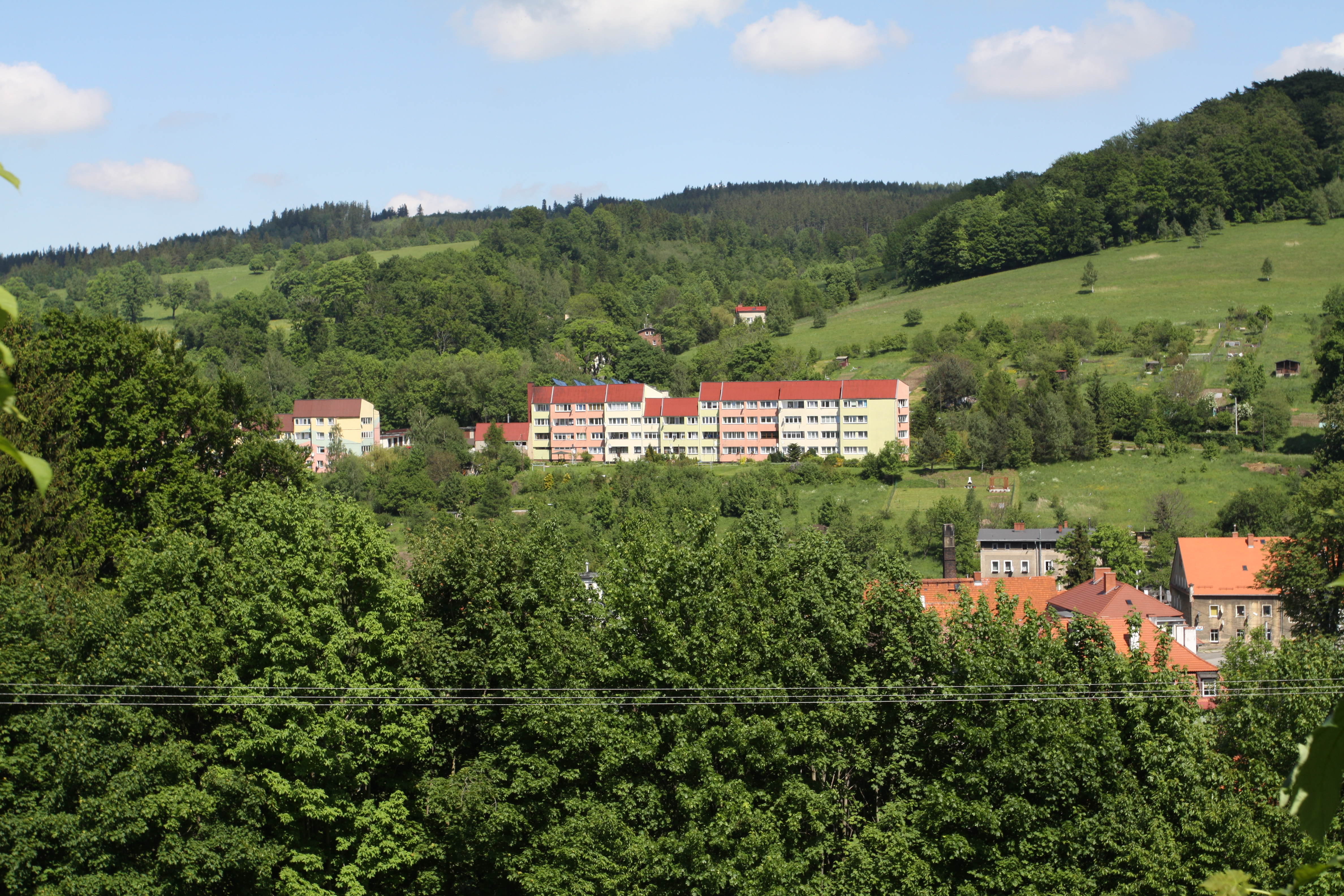 View to the Walim, Lower Silesian Voivodeship, Poland